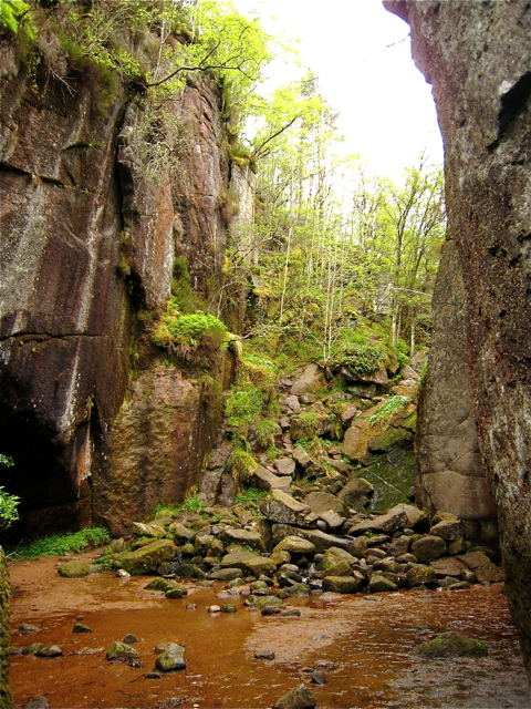 Burn O'Vat: The Vat waterfall The Vat is a natural amphitheatre cut out of the rock by glacial meltwater at the end of the last ice age. Water still flows down a water fall into the vat, sometimes torrentially 658470, but on this day the flow was minimal.